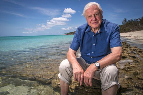 Photograph of Sir David Attenborough seated at the Great Barrier Reef, taken for his Great Barrier Reef series